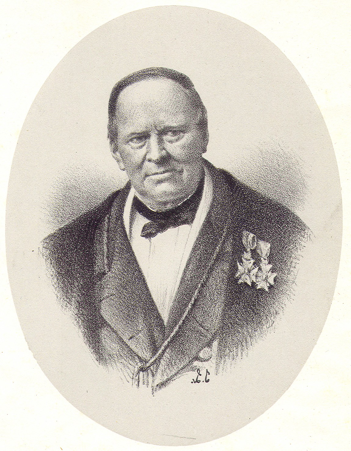 Monogram is illegible. 12,2 x 9,3 cm (32,1 x 24,5 cm).